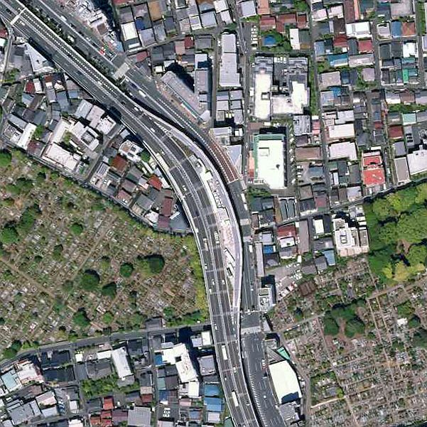 Minami-ikebukuro Parking Area (Ikebukuro Route).